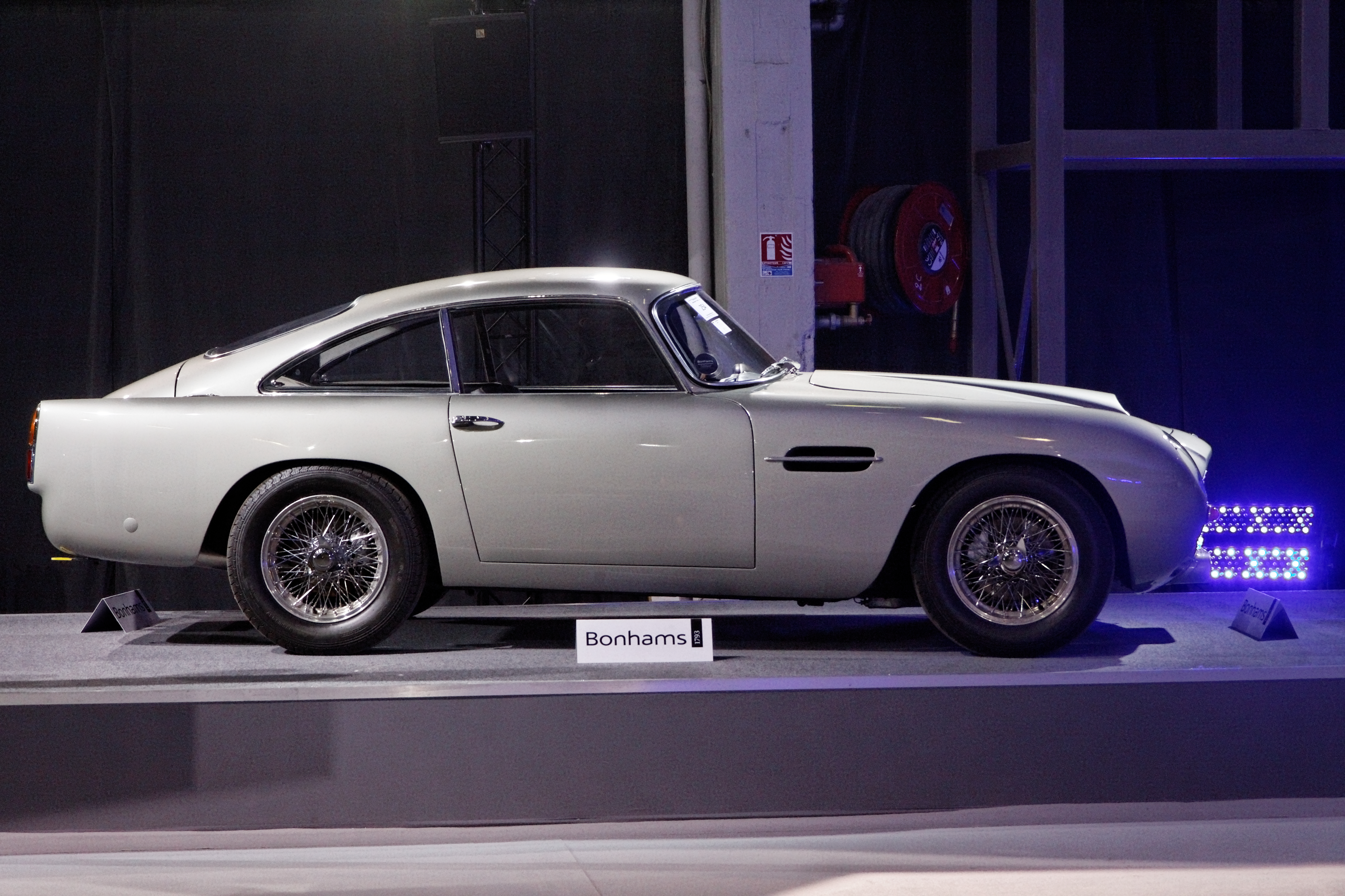 Aston Martin DB4GT Coupé